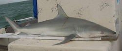 Tagged finetooth shark (Carcharhinus isodon)